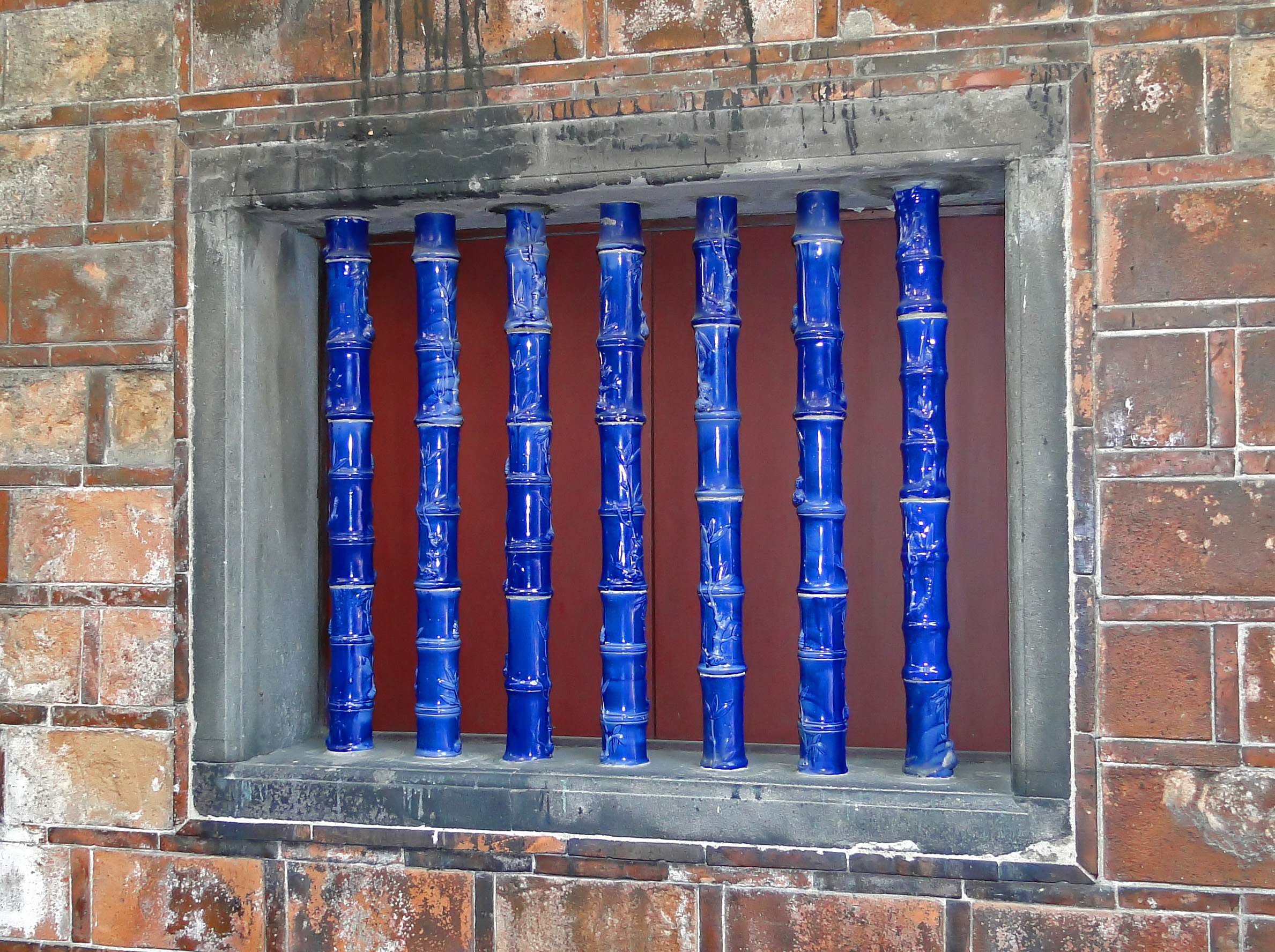 Bamboo style barred window in Lin An Tai Historical House, Taipei, Taiwan